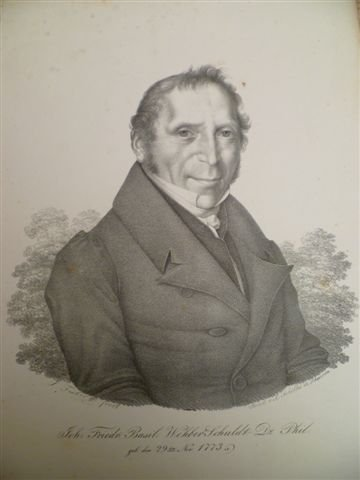 Portrait of Johann Friedrich Basilius Wehber-Schuldt, copper engravings